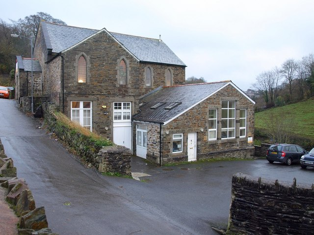 Former National School, Launceston This building, on St Thomas Road and Wooda Lane, was "attended by Charles Causley as both pupil and teacher", a slate plaque on the wall reads. It is now the Launceston Enterprise Centre.